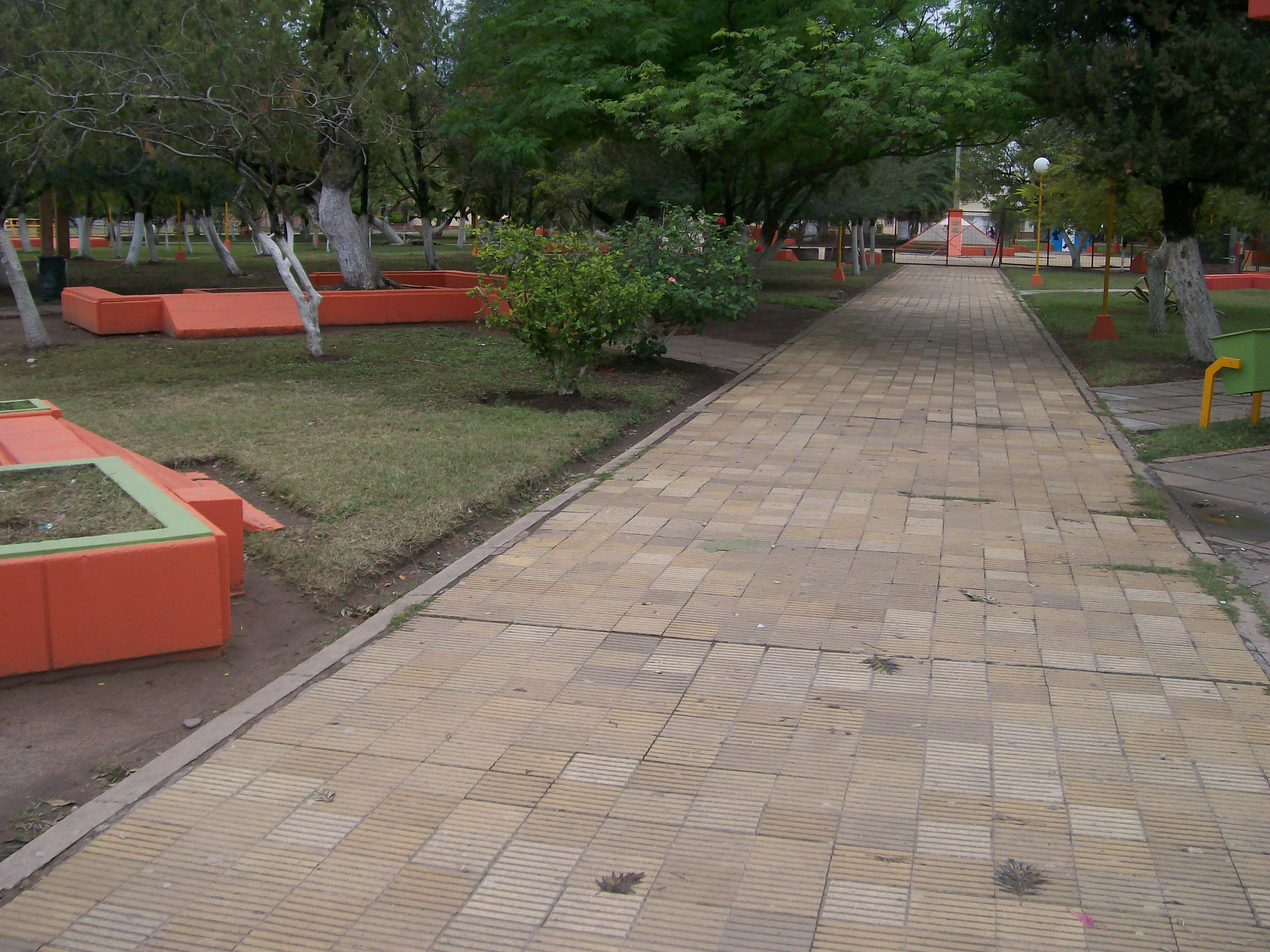 Main square in Quitilipi (Chaco Province, Argentina).